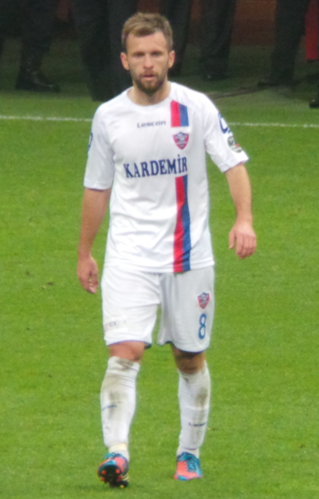 Hakan against G.s